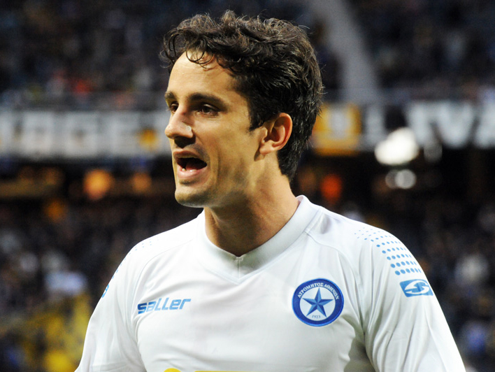 Marcelo Leite Pereira, Atromitos